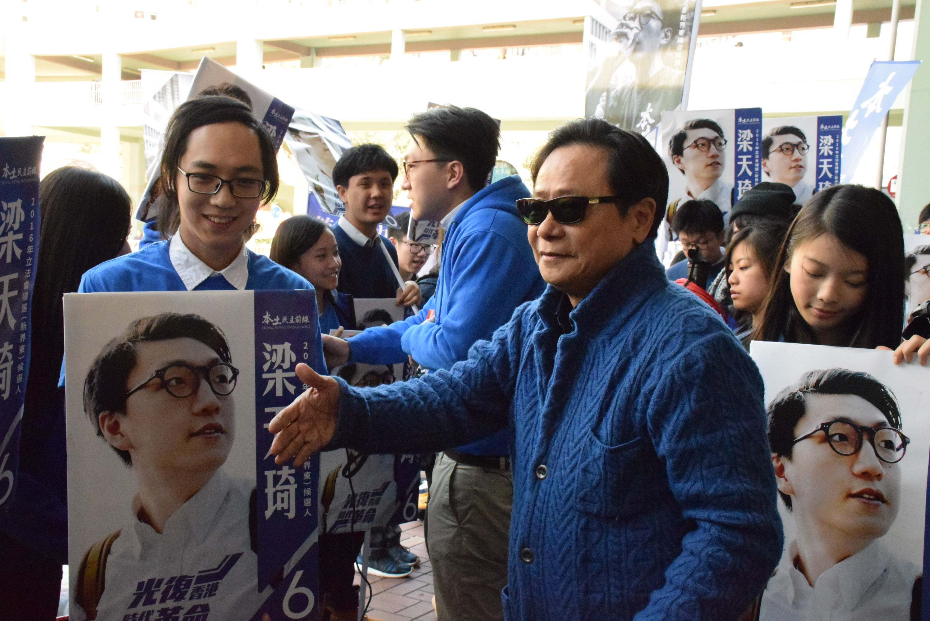 Legislative Councillor Wong Yuk-man campaigned for Hong Kong Indigenous candidate Edward Leung. 中文（香港）: 立法會議員黃毓民替本土民主前線候選人梁天琦助選